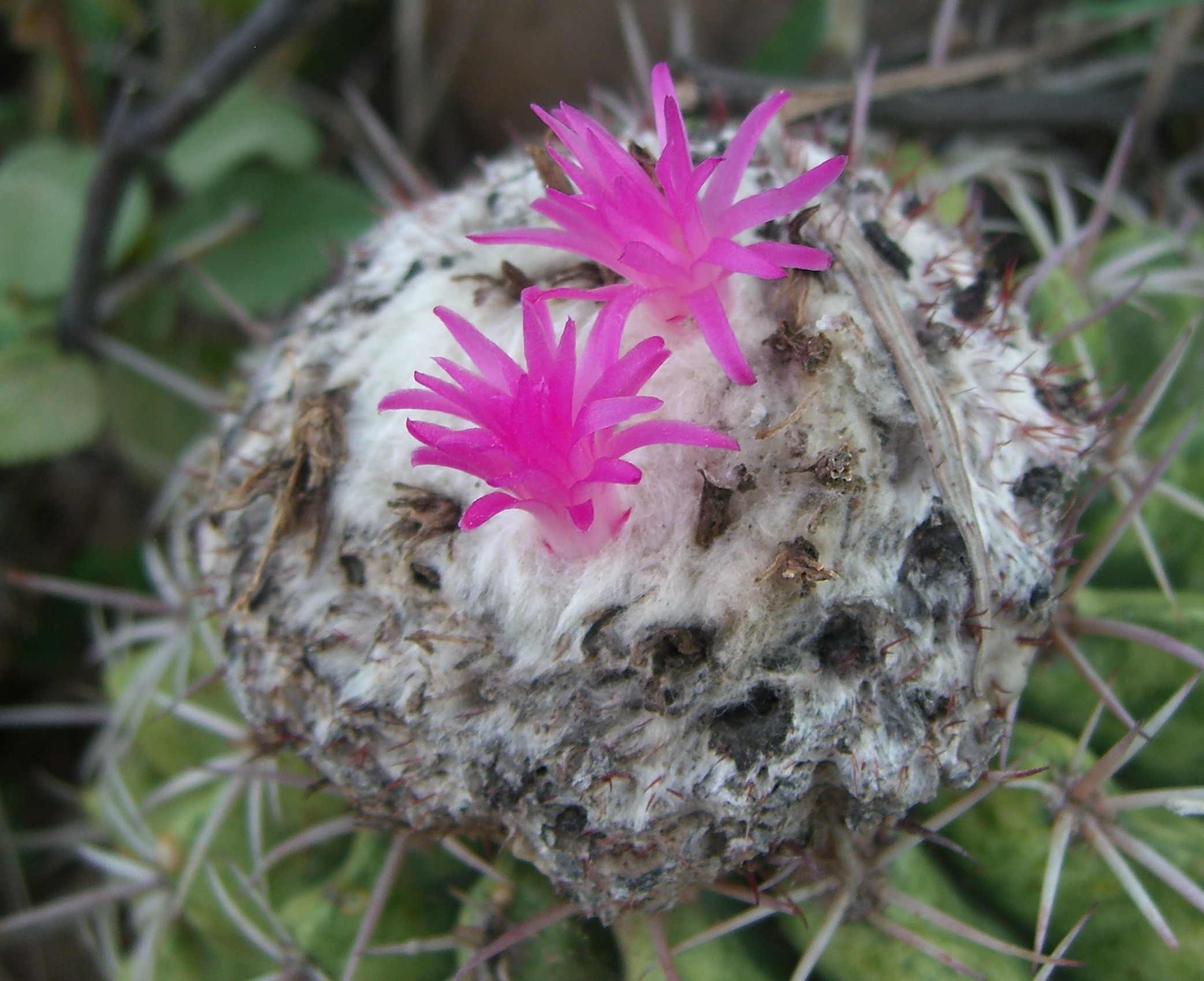 Determined by Benutzer:Succu